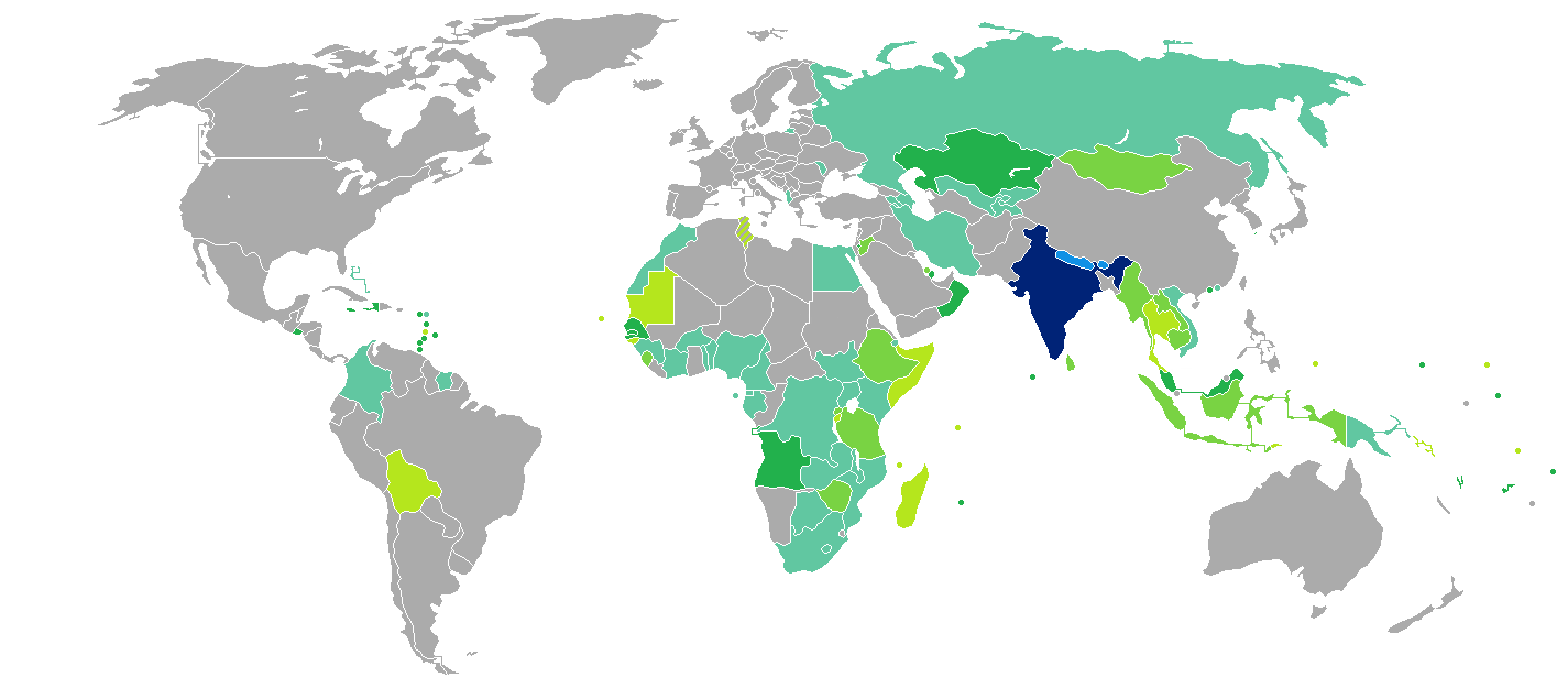 Visa requirements for Indian citizens India Visa free access Freedom of movement Visa on arrival eVisa Visa available both on arrival or online Visa required